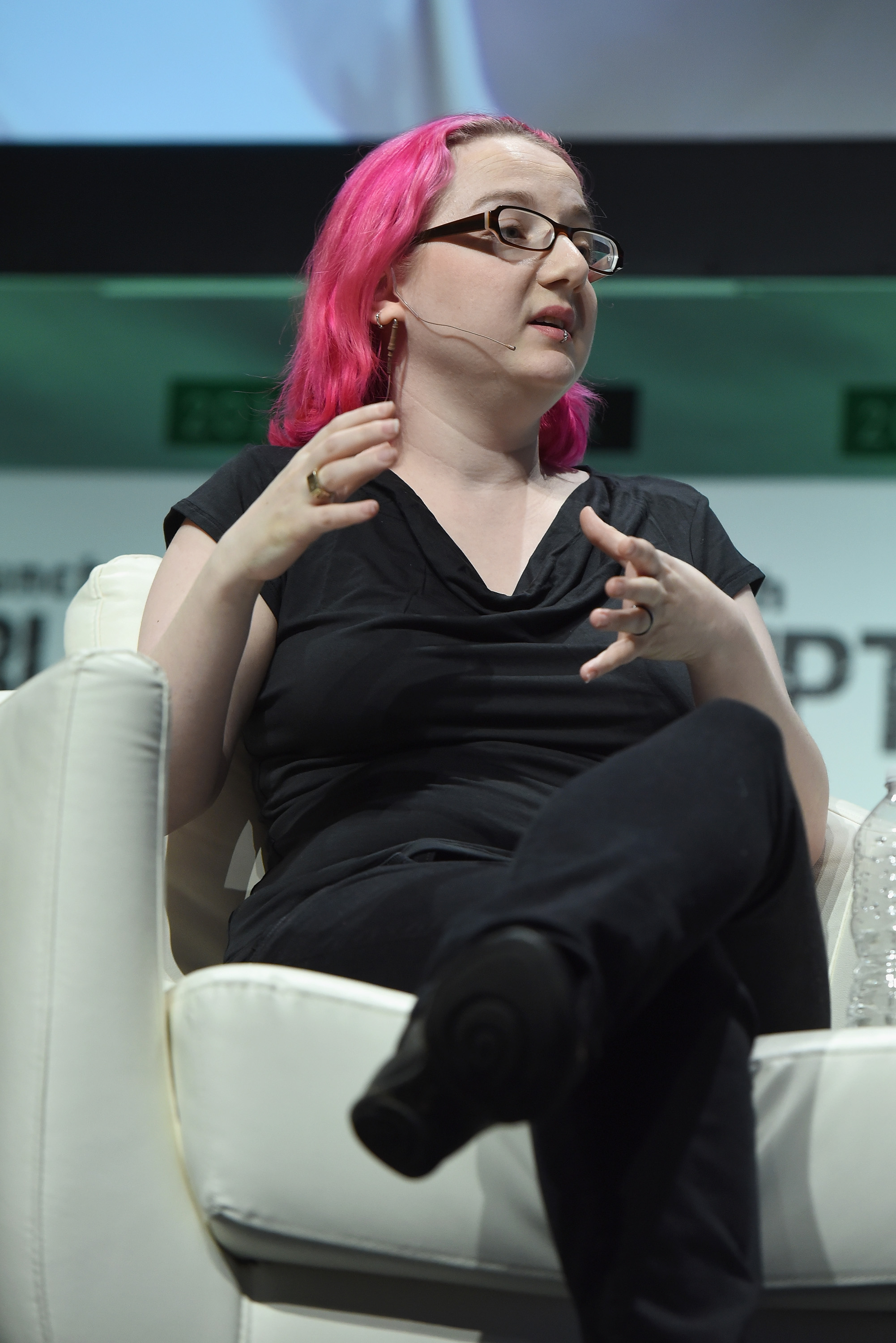 NEW YORK, NY - MAY 04: Founder of Adafruit, Limor Fried speaks onstage during TechCrunch Disrupt NY 2015 - Day 1 at The Manhattan Center on May 4, 2015 in New York City. (Photo by Noam Galai/Getty Images for TechCrunch)